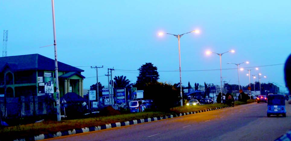 A street in Asaba, Summit road